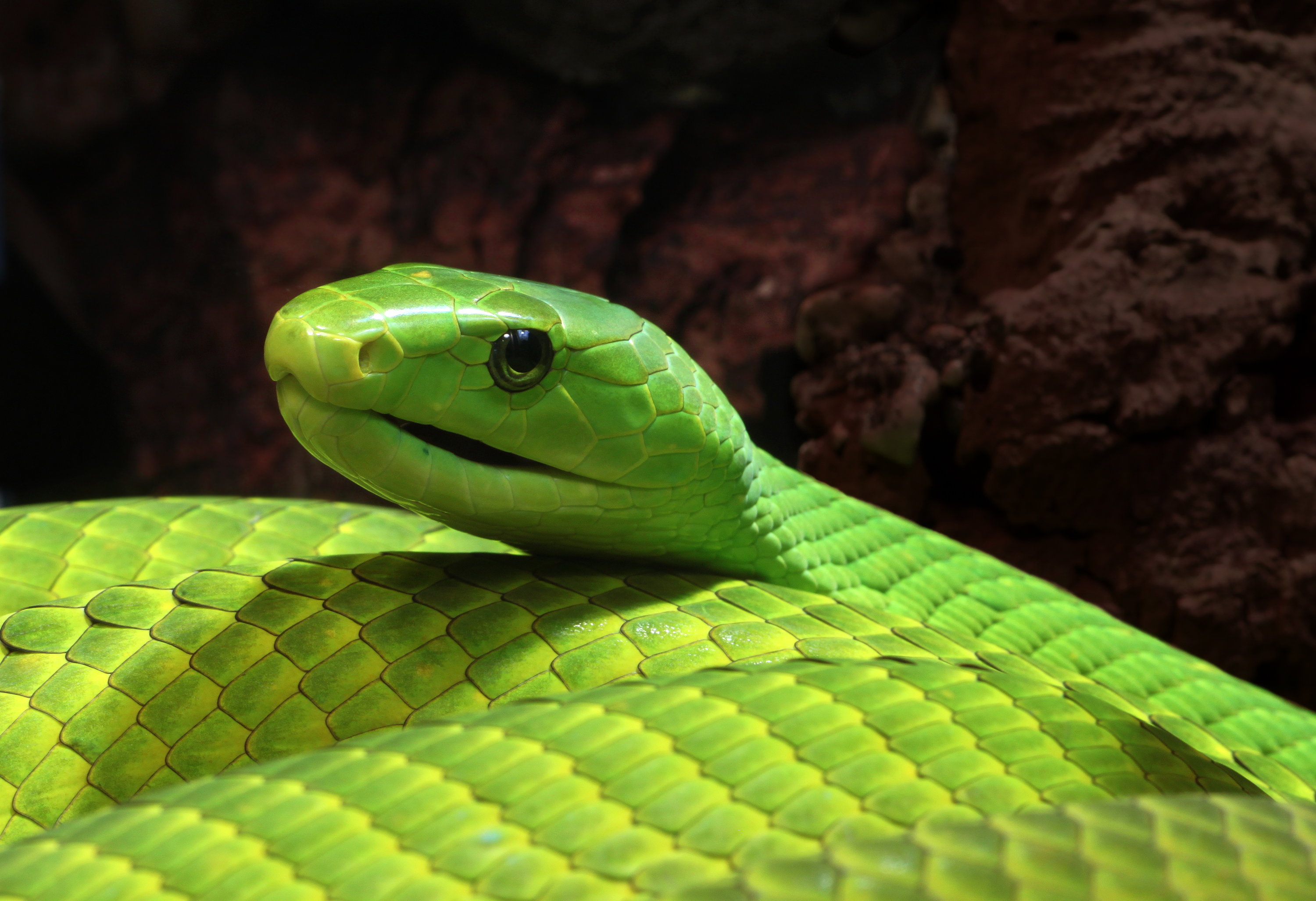 Eastern Green Mamba Dendroaspis angusticeps, Family: Elapidae, Location: Germany, Munich, Zoological Garden.